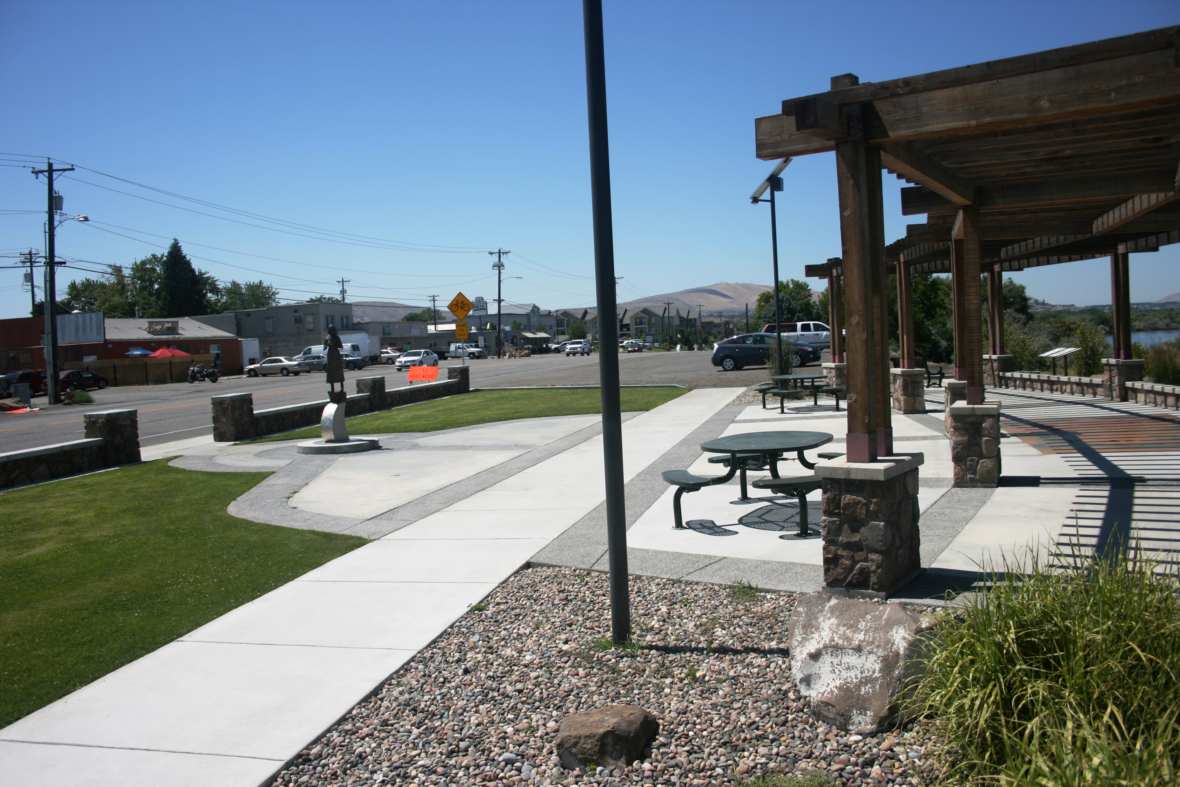 The Richland Y is an unincorporated community in Benton County, Washington, United States, located within the east city limits of Richland. ` Richland Y - looking west from park commemorating Sacajawea toward Badger Mountain through business zone.